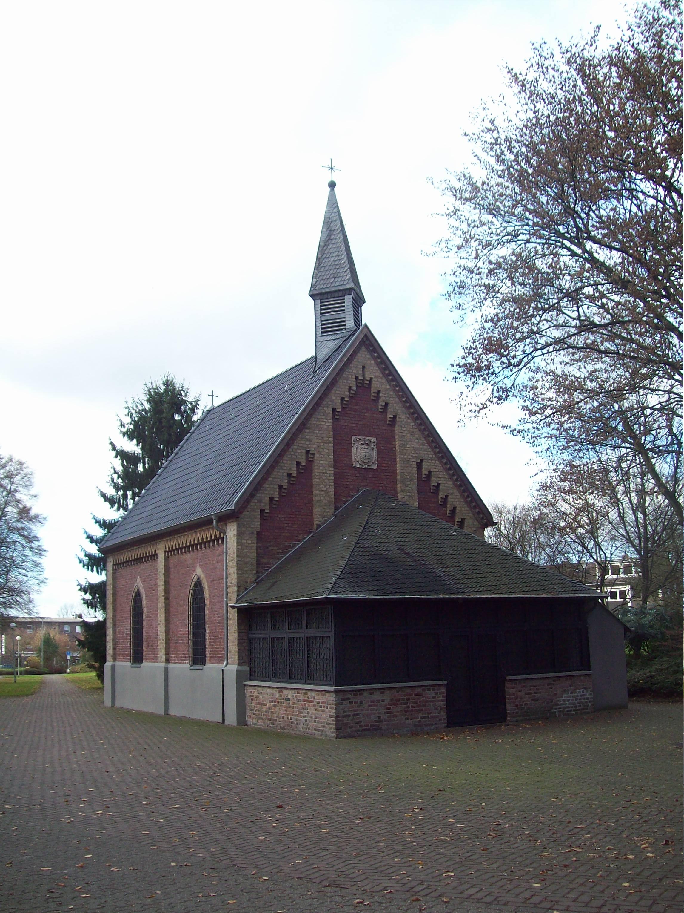 Gezelin-Chapel in Leverkusen-Alkenrath – front